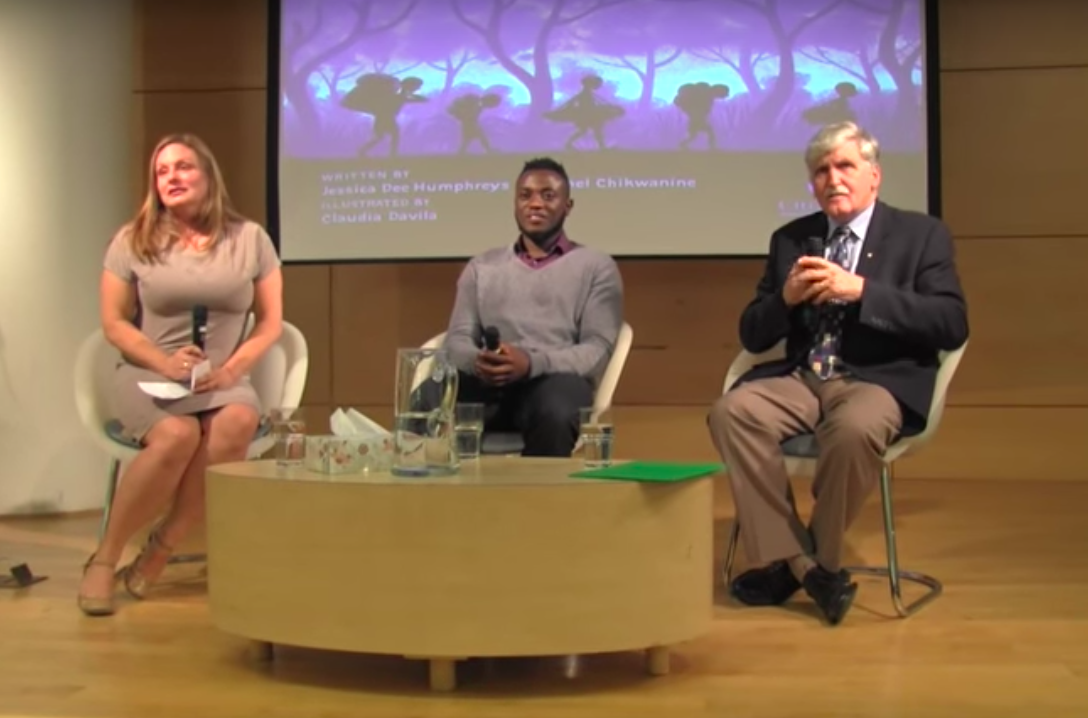 Authors Jessica Dee Humphreys (left) and Michel Chikwanine (middle) at the Toronto Public Library for the launch of their book, Child Soldier, in 2015.